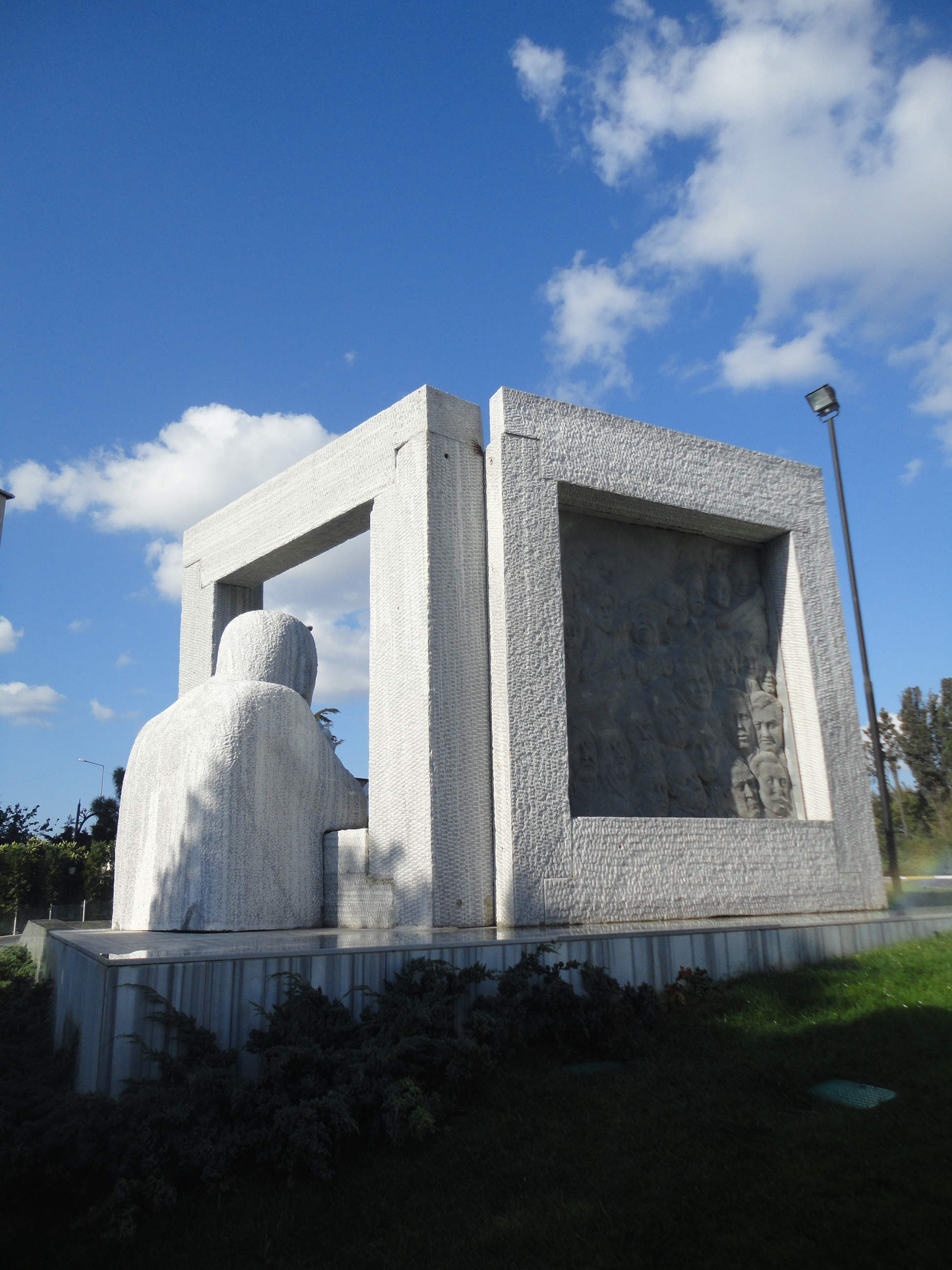 Ilhan Selcuk Statue and the reliefs founders of Turkish enlightenment, by Mehmet Aksoy